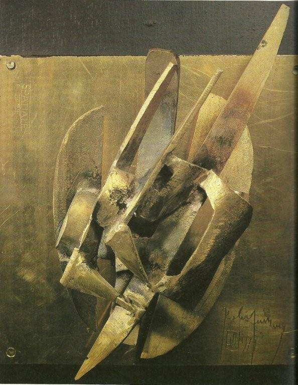 Work of art by sculptor Jørleif Uthaug (1911-90): Spatiale